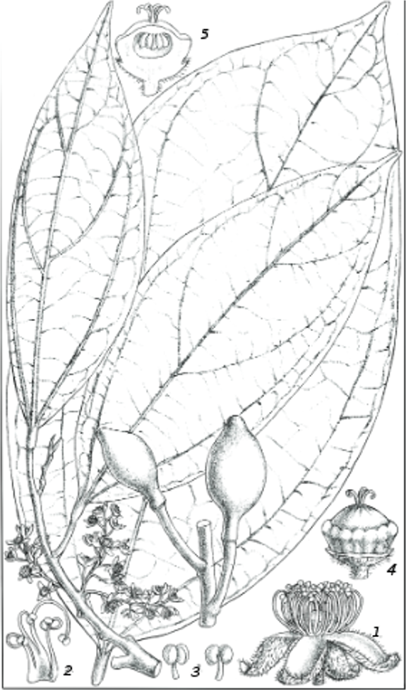 Botanical illustration of Peridiscus lucidus Benth. by Hooker. Background Leaf, 1. Flower, 2. Group of stamens, 3. Anther, 4. Pistil, 5. Section of ovary